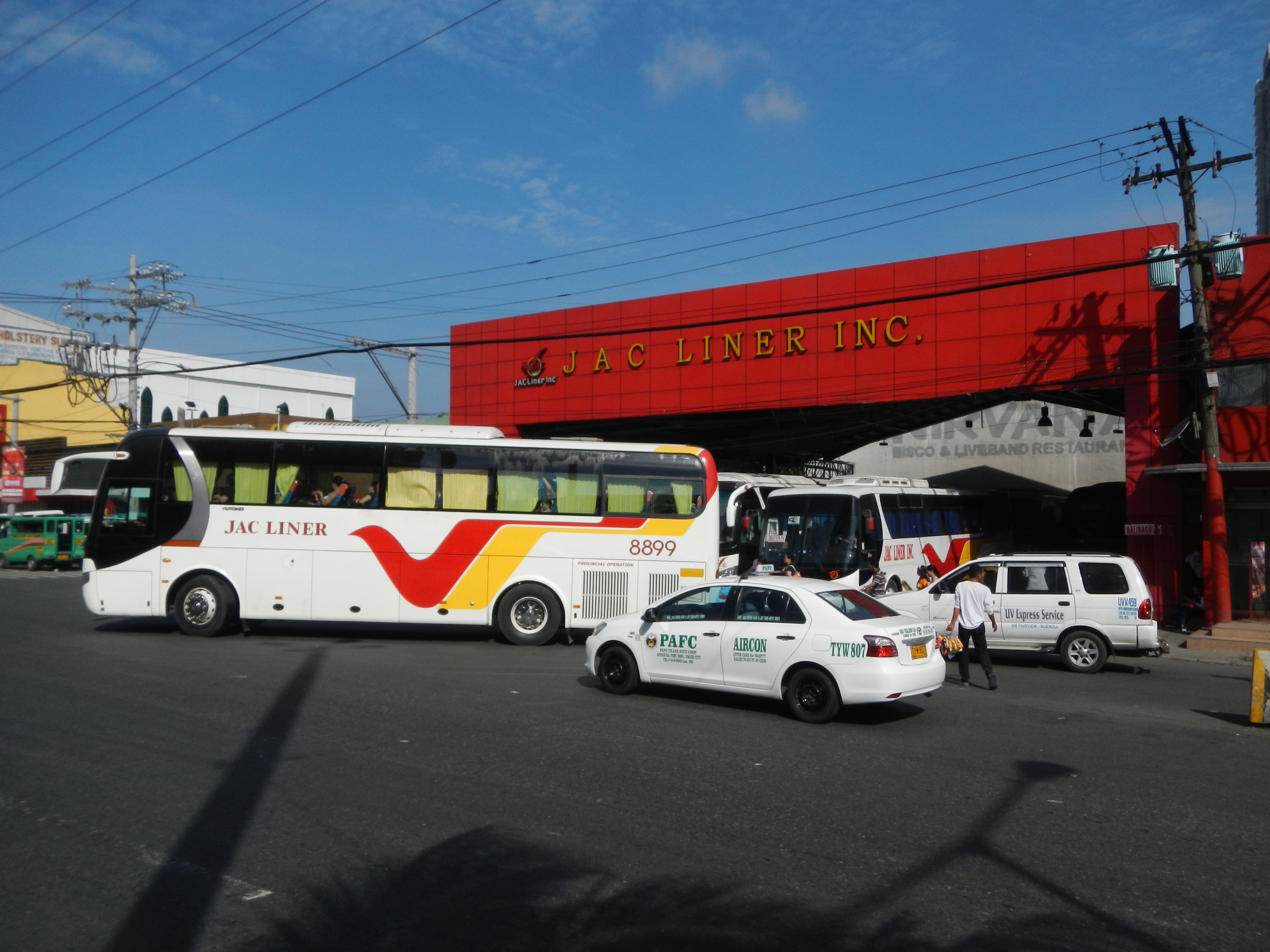 Upload Wizard photos of - JAC Liner Inc.[1]